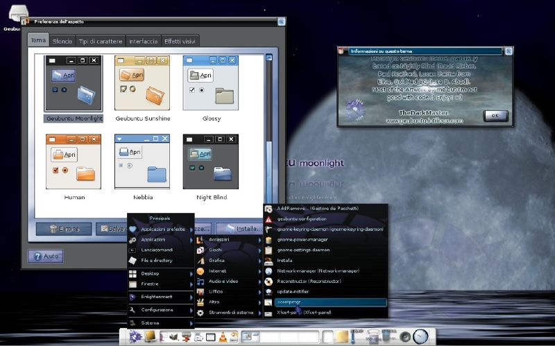 OpenGEU Luna Nuova with the moonlight theme